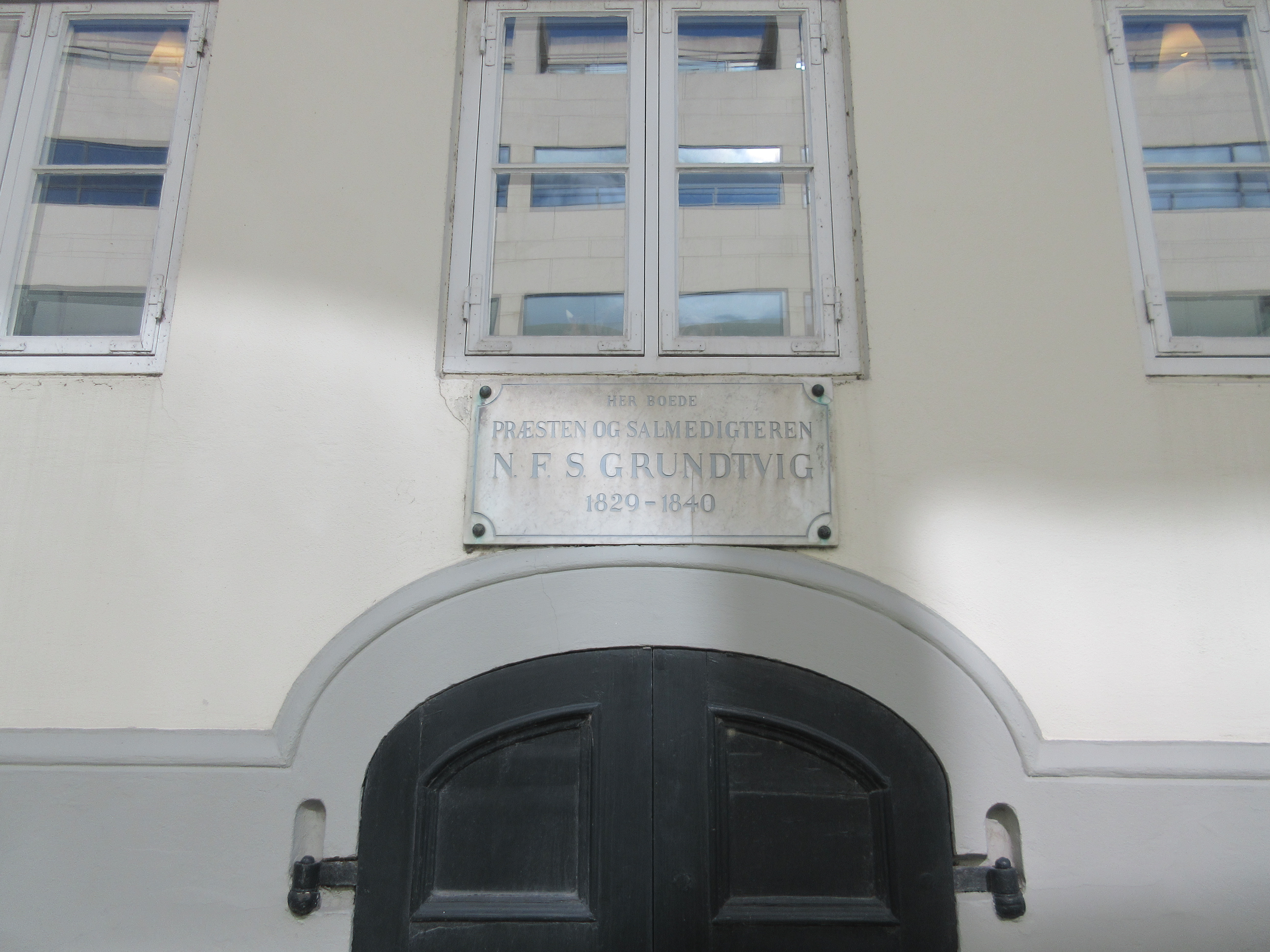 Ålaque on Strandgade 41B commemorating that Grundtvig used to live in the building.